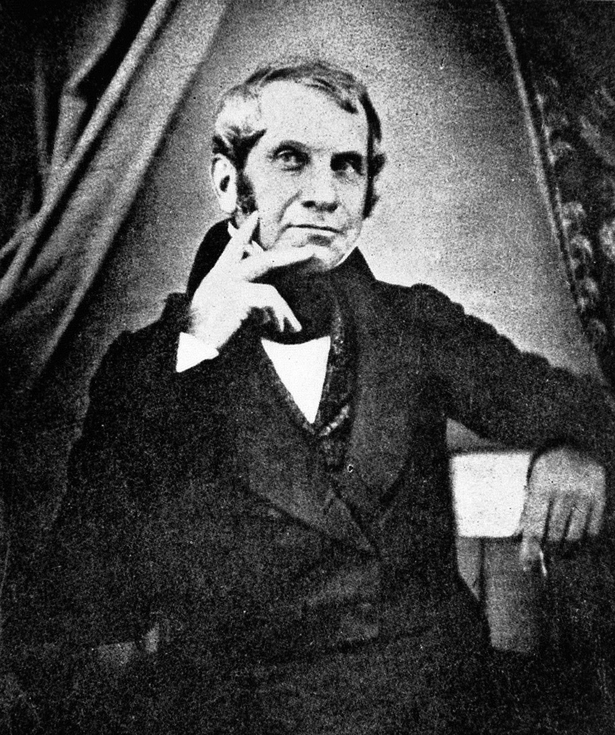 Portrait of Jacob Bigelow (1787-1879). Physician of Massachusetts General Hospital